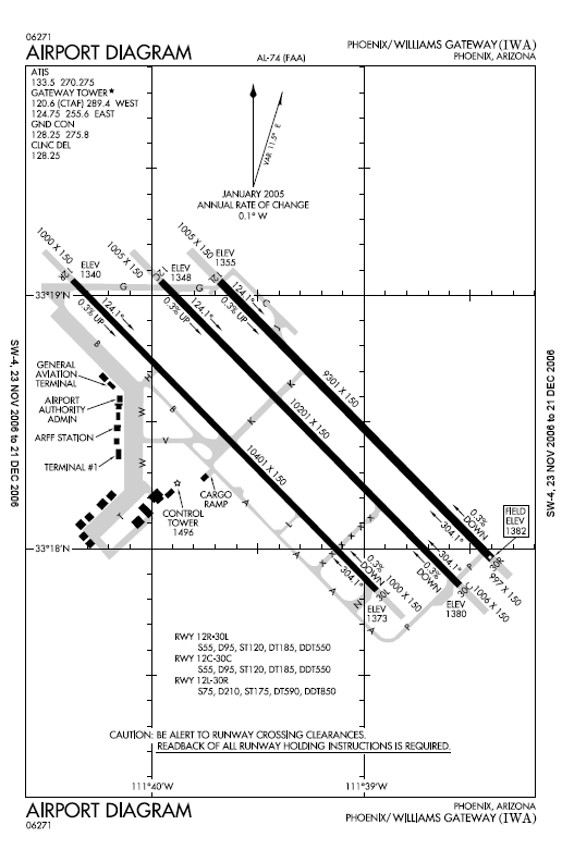 FAA airport diagram for Williams Gateway Airport (IWA), now known as Phoenix-Mesa Gateway Airport, in Mesa (near Phoenix), Arizona, United States.